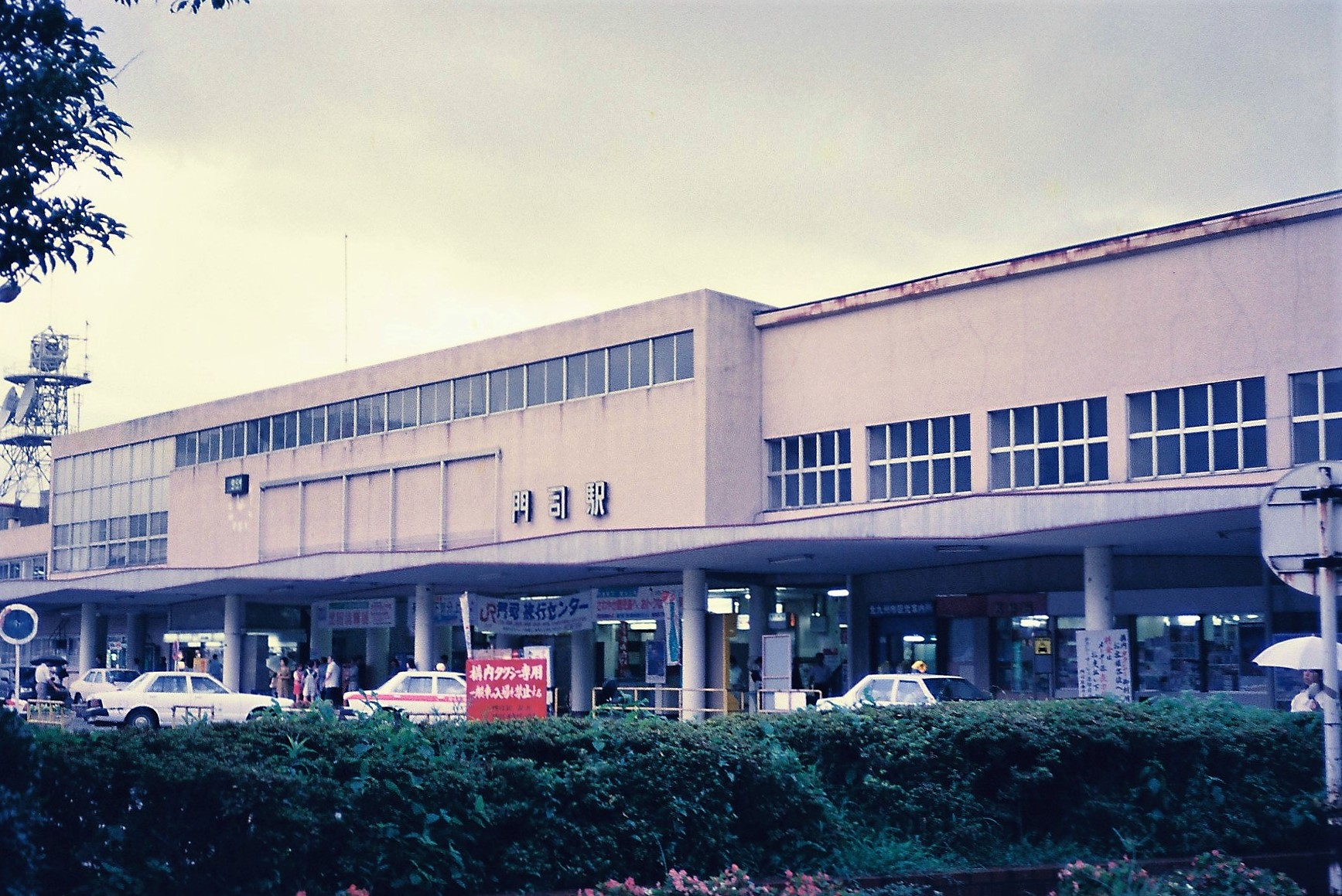 Moji Station